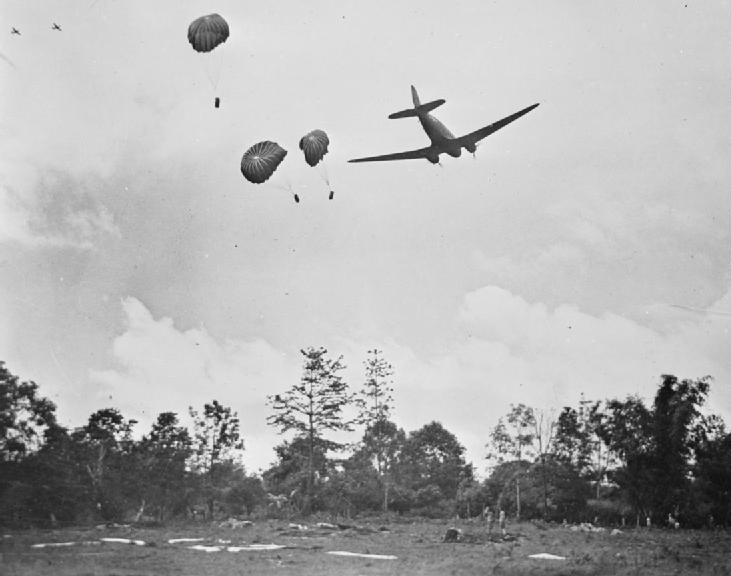 IWM caption : THE WAR IN THE FAR EAST: THE BURMA CAMPAIGN 1941-1945, Description: Logistics: A C 47 aircraft releases parachutes with ammunition and rations for American troops in the field about 1500 yards from the Japanese line on the Myitkyina front.